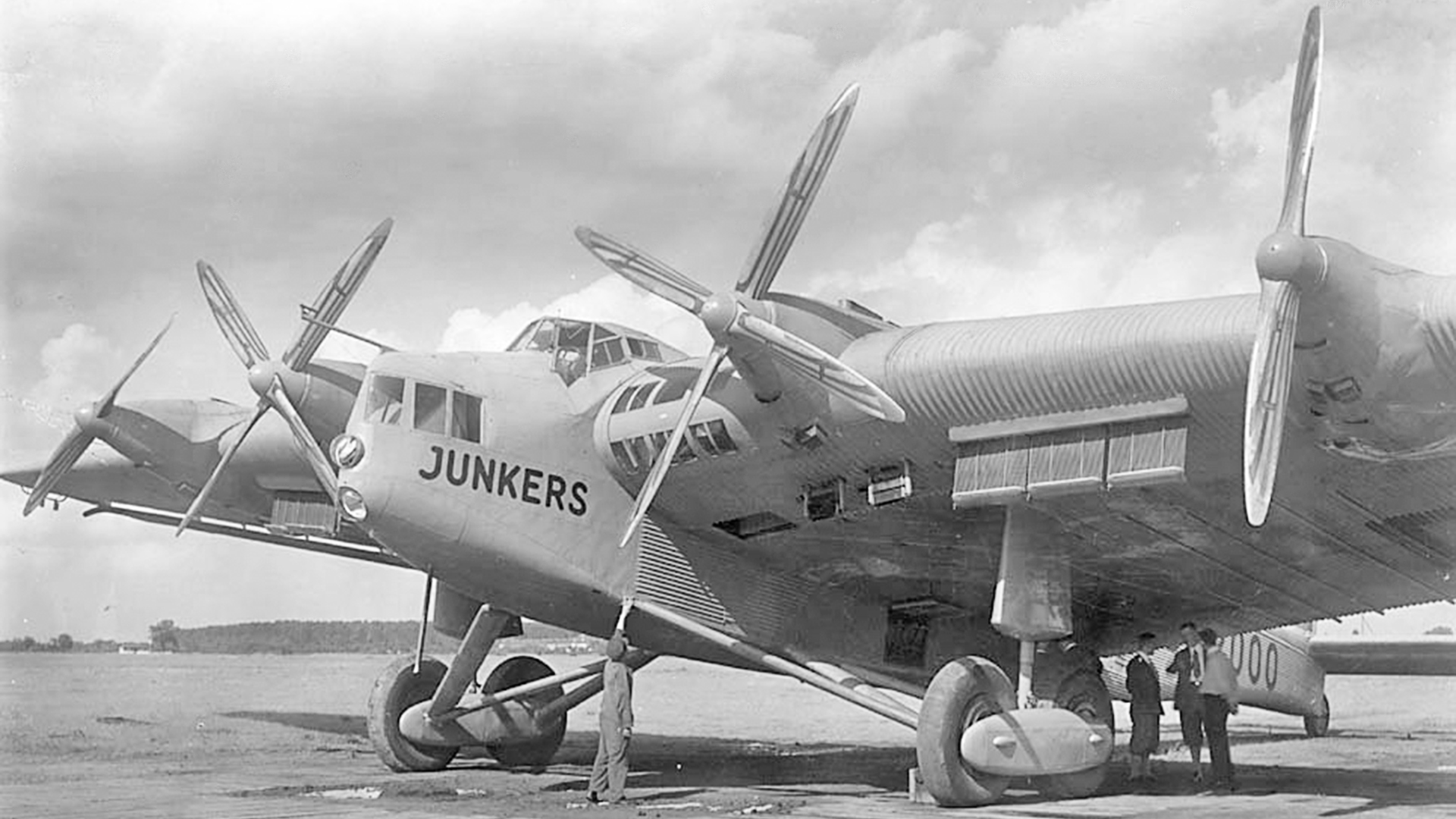 aircraft Junkers Grossflugzeug G 38 (D-2000) 1930; based on image Image:LA2-Blitz-0128.jpg